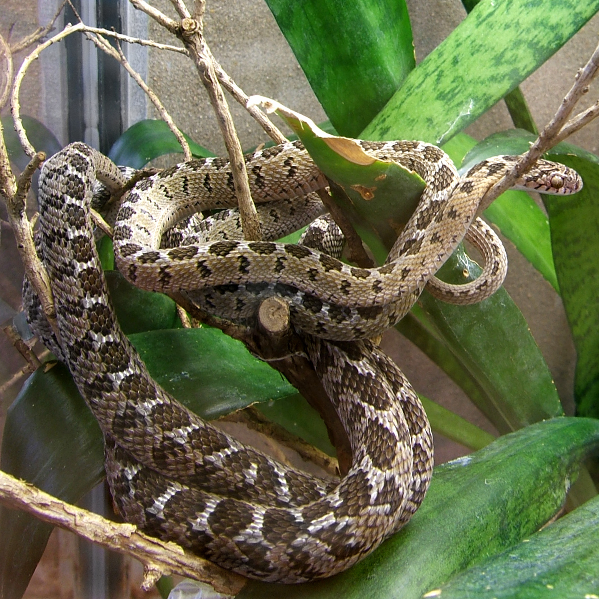 Common Egg-eater, Rhombic Egg-eater